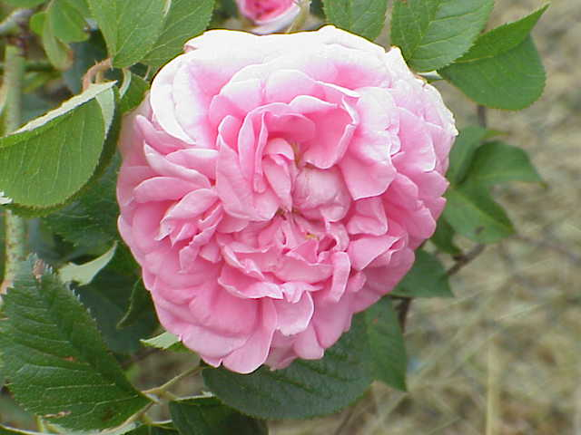 Species: Rosa alba Family: Rosaceae Cultivar: Königin von Dänemark, Booth 1816 Image No. 2